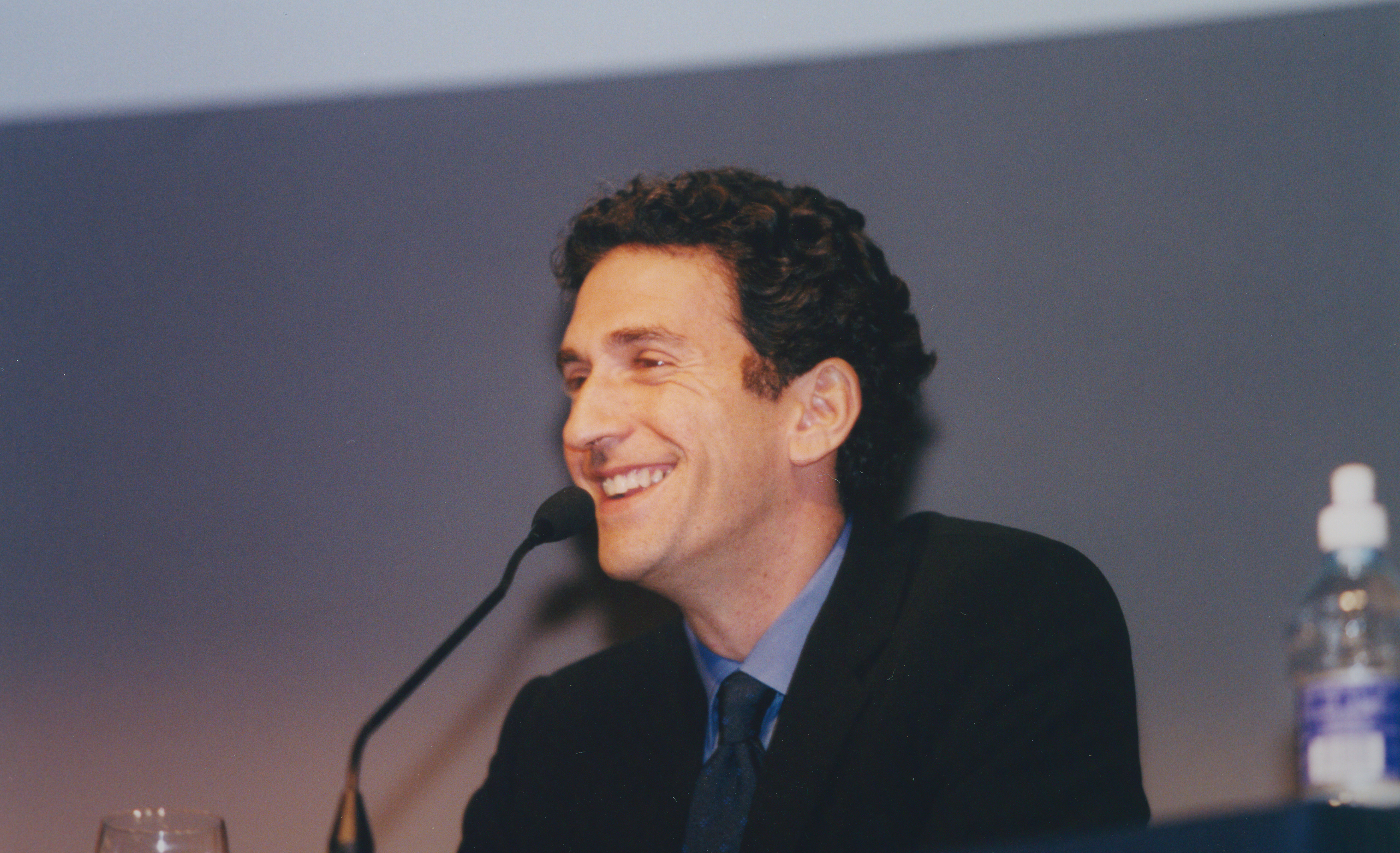 James Rubin, former US Assistant Secretary of State for Public Affairs IMAGELIBRARY/854 Persistent URL